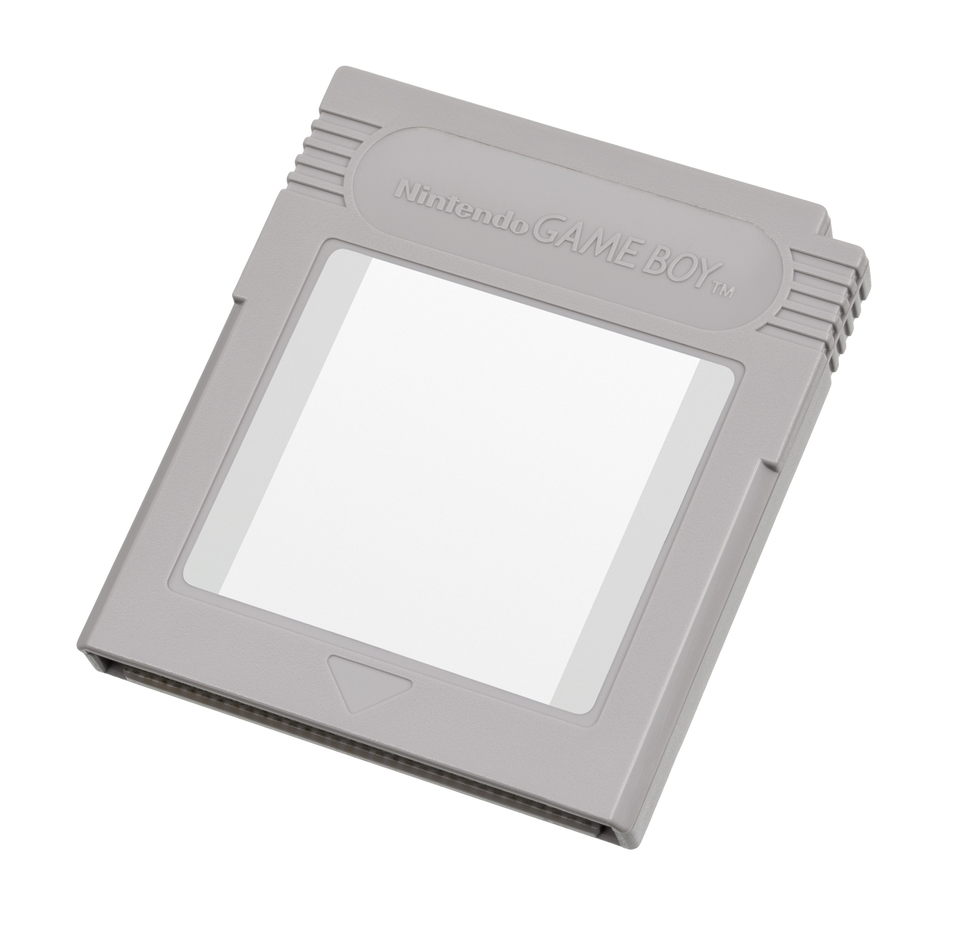 A blanked-out cartridge for the Nintendo Game Boy handheld console.